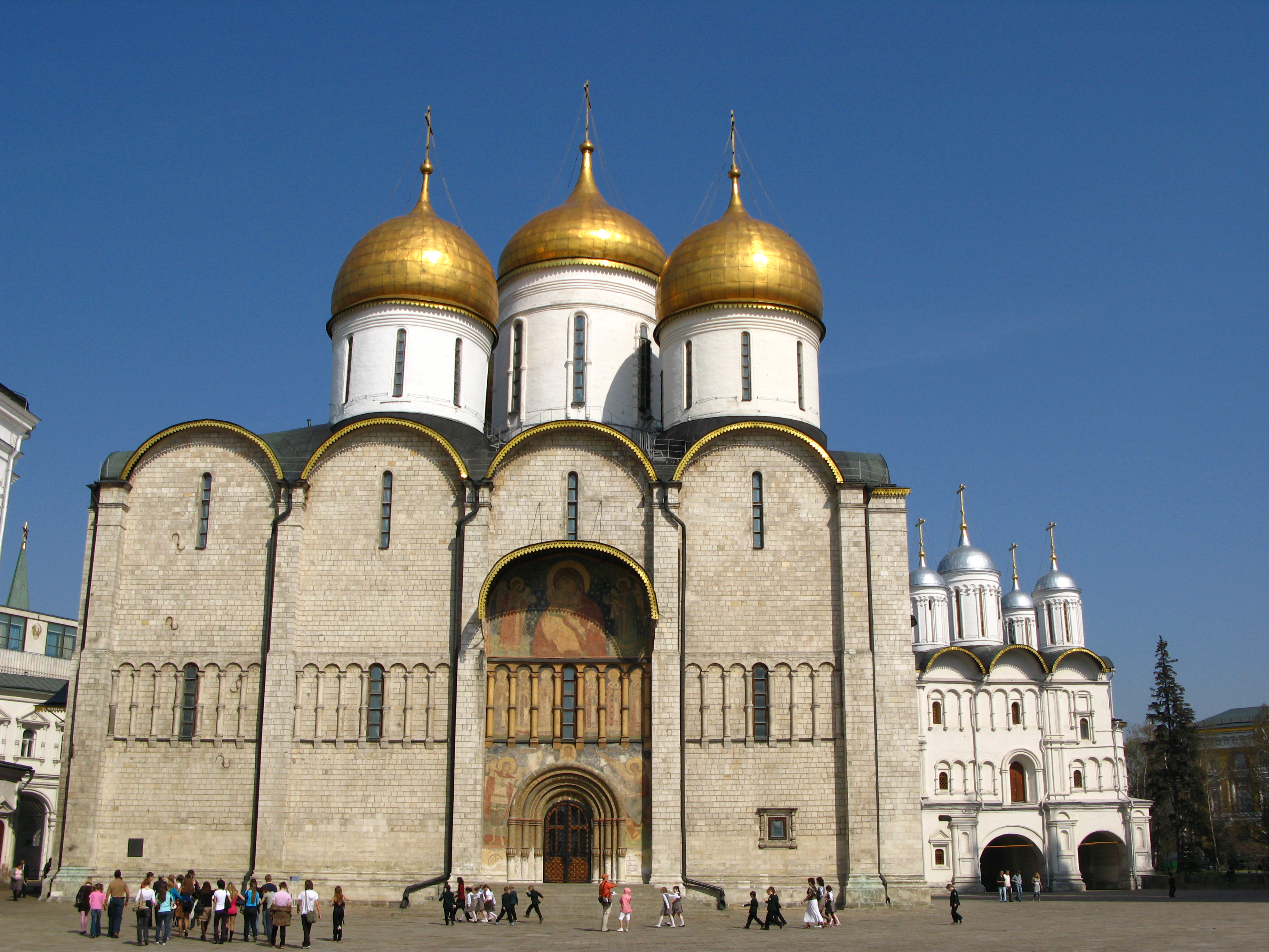 Тhe Assumption cathedral in Moscows Kremlin, Russia. Site of coronation of Russian tsars.